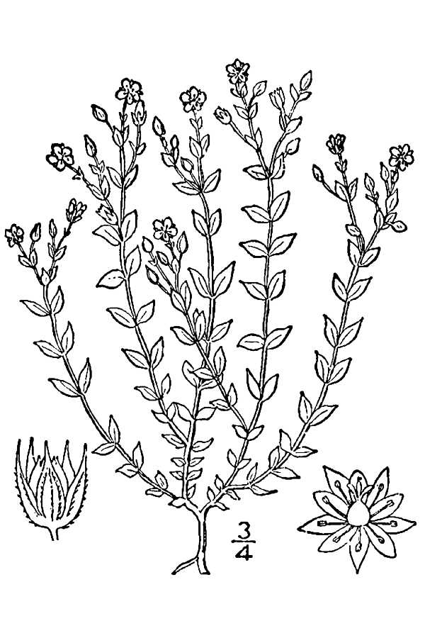 Arenaria leptoclados